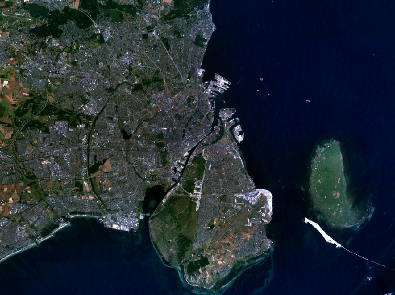 Copenhagen, Denmark. Satellite view.